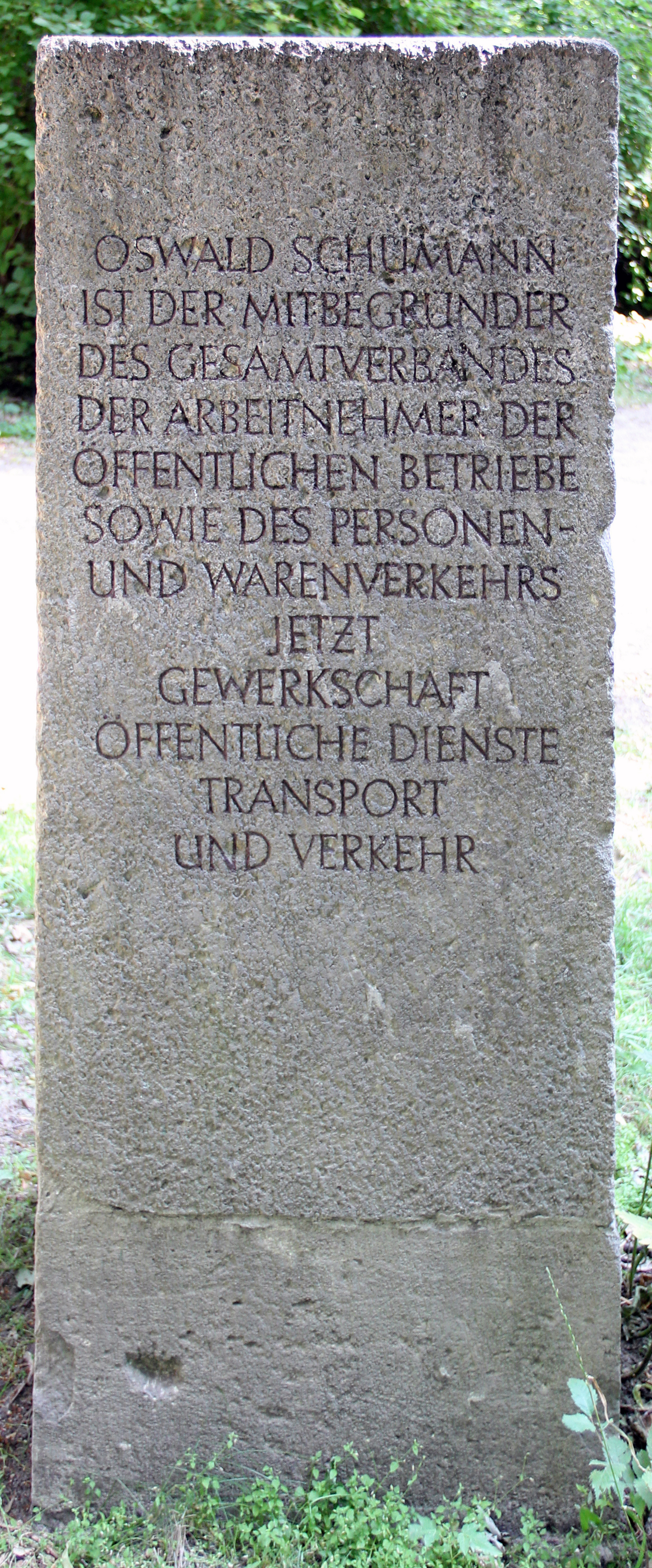 Memorial stone, Oswald Schumann, Oswald-Schumann-Platz, Berlin-Tiergarten, Germany